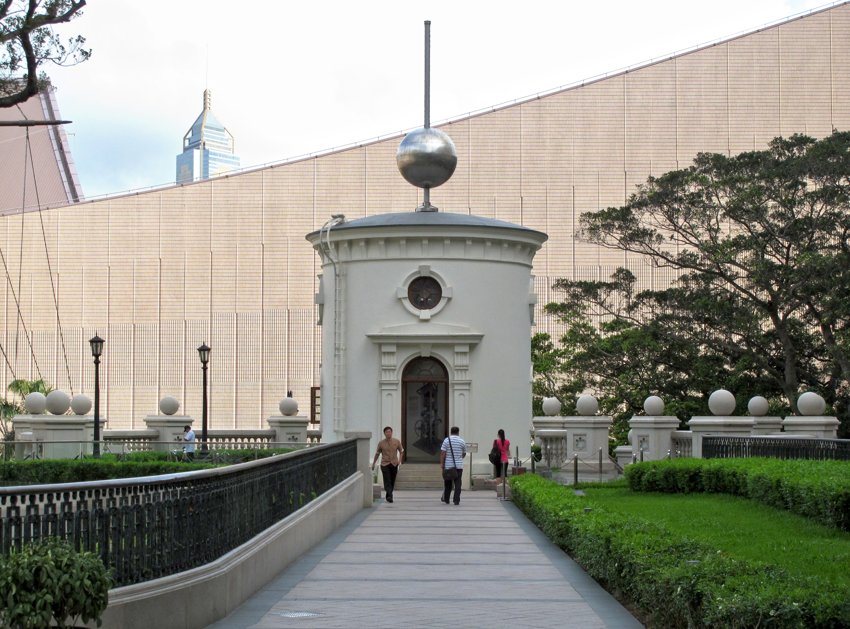 1881 Heritage Compound Signal Tower